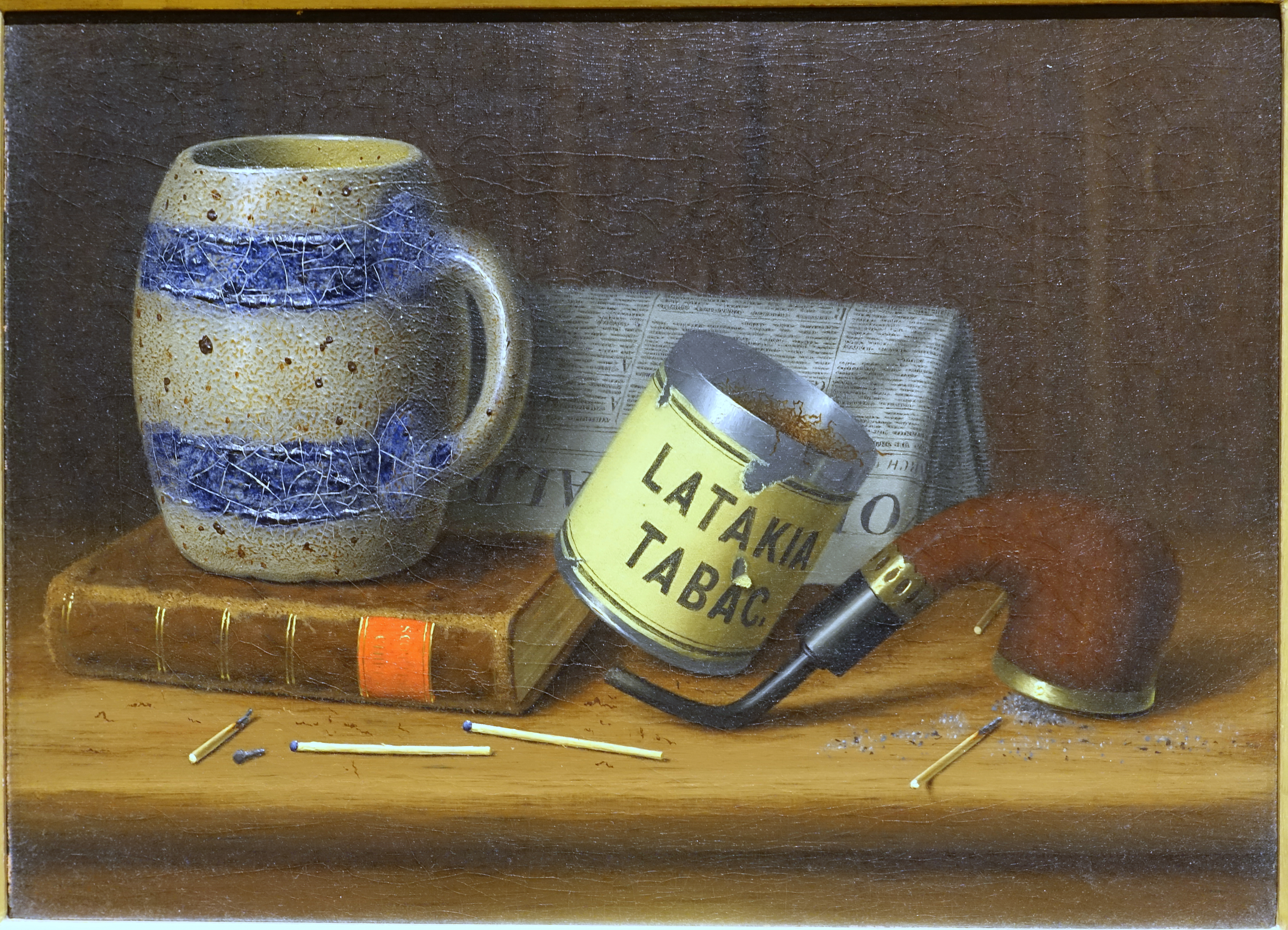 Exhibit in the Portland Museum of Art - Portland, Maine, USA.